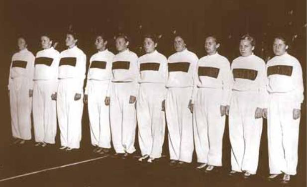 Lithuania women's national basketball team during EuroBasket 1938 Women. The national team won silver medals that year.